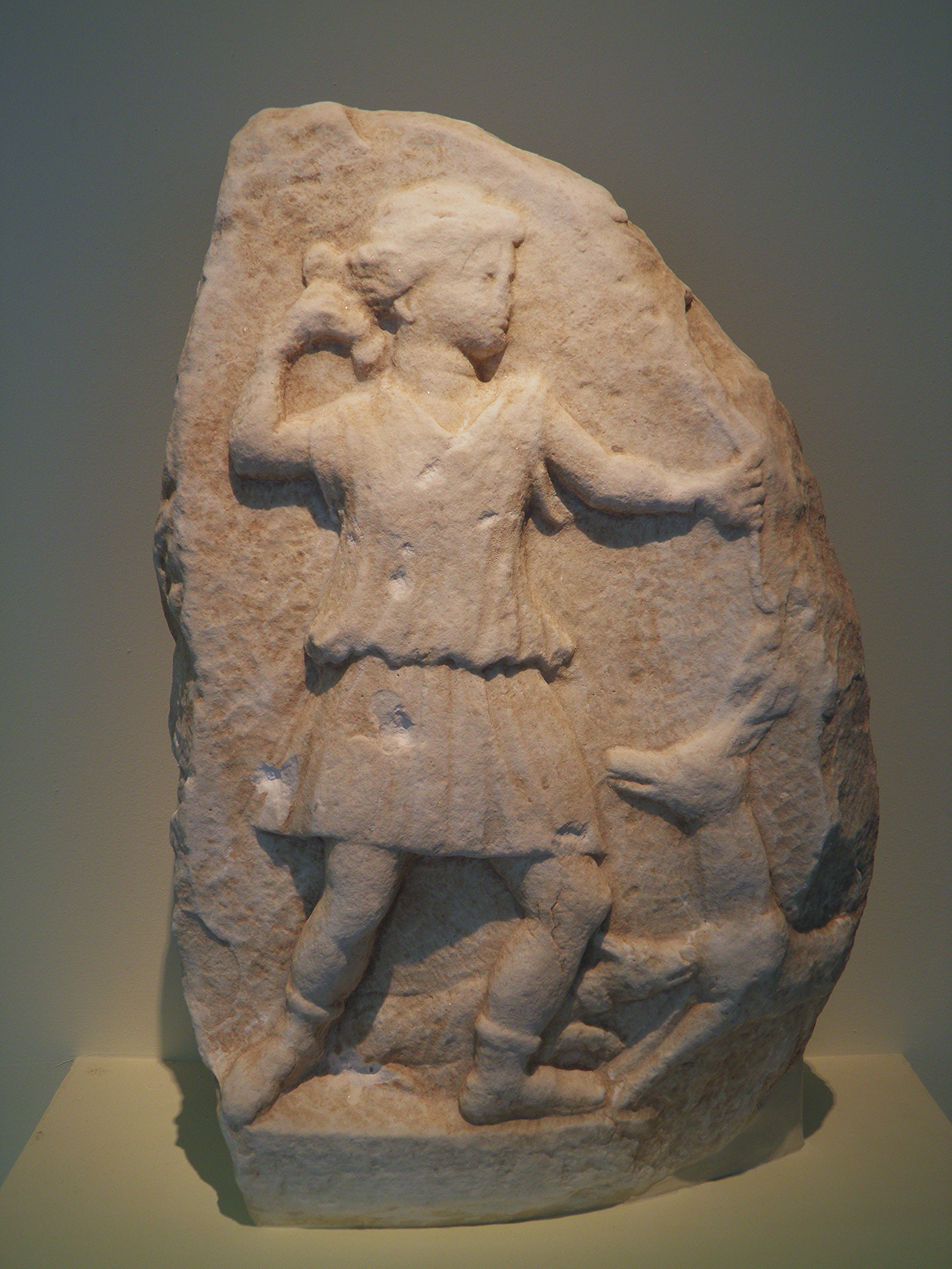 Votive stele in relief portraying Artemis, at her feet a dog is attacking a deer, 2nd-3rd century AD, Philippi Museum